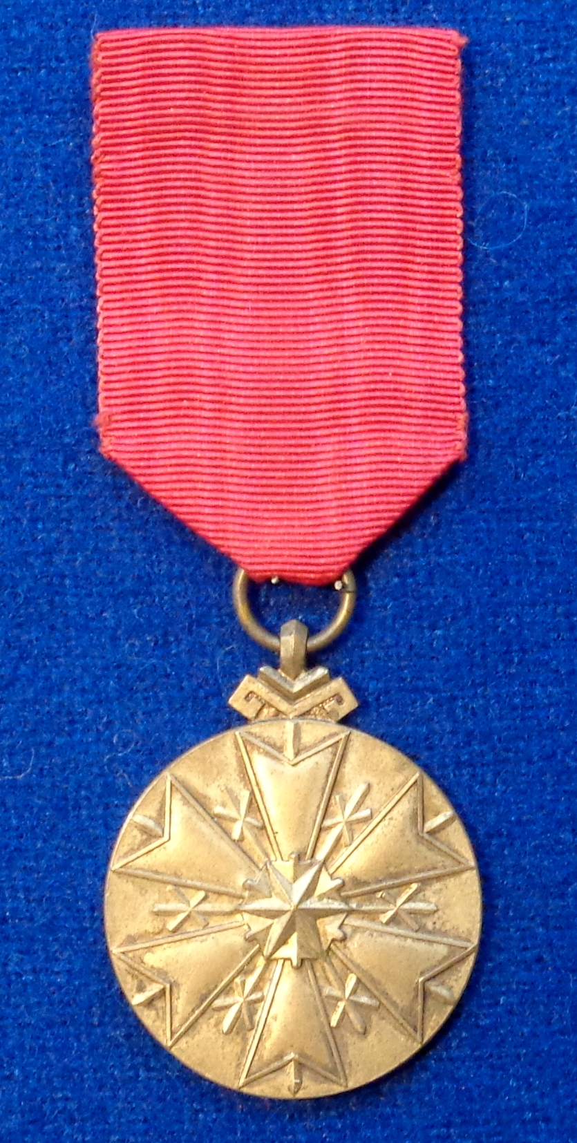 Medal 2nd class of the Order of the White Star, obverse, before 1940. Estonia. The exhibition of the Tallinn Museum of Orders of Knighthood, Estonia.